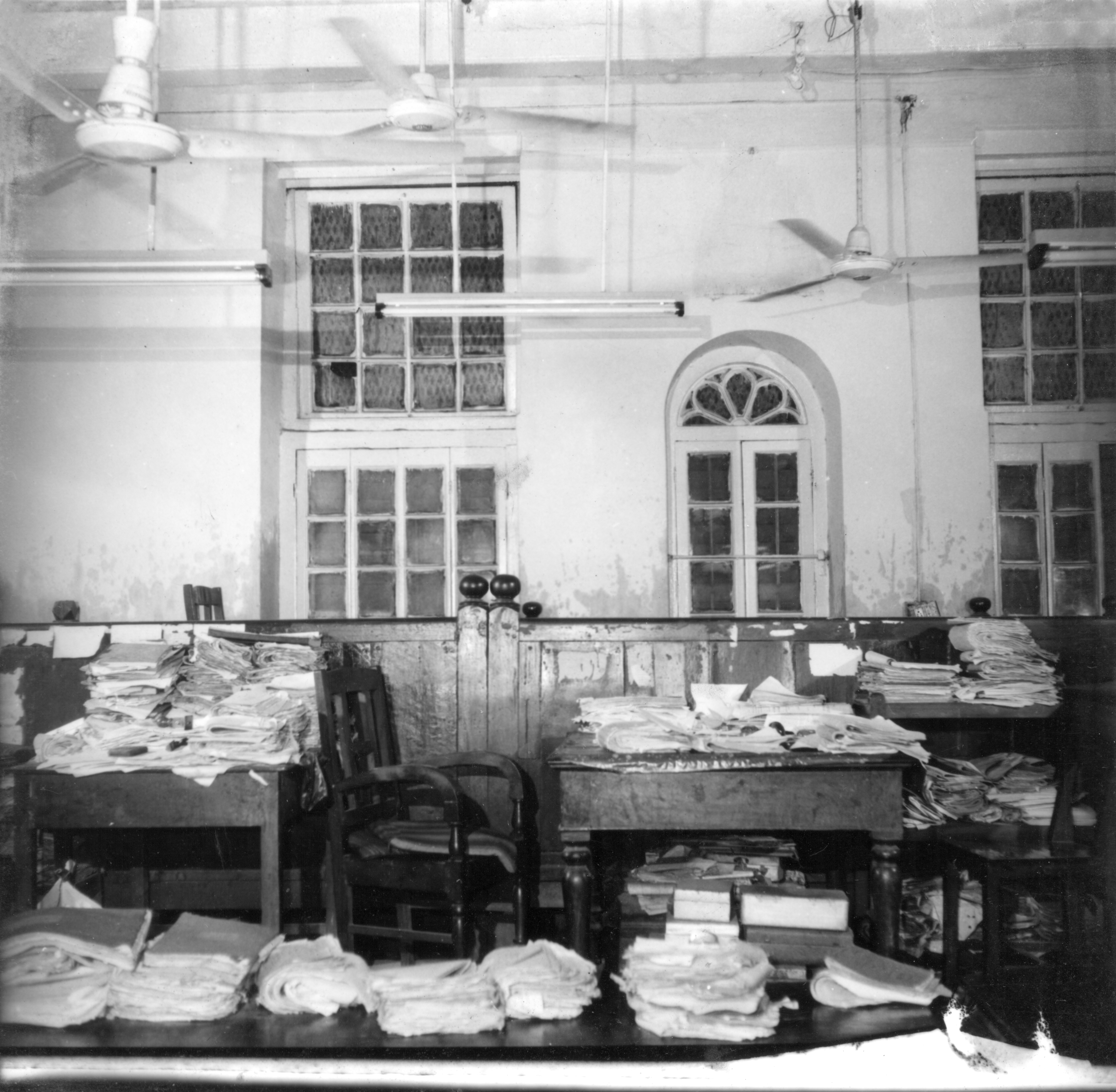 The Alipore Bomb Case (or Alipore bomb conspiracy or Alipore bomb trial) was done here in this court in Kolkata. This photograph taken in 1997 by Rolleicord camera, then printed in 4x4 inch. The old print has been scanned on 28 April 2014.